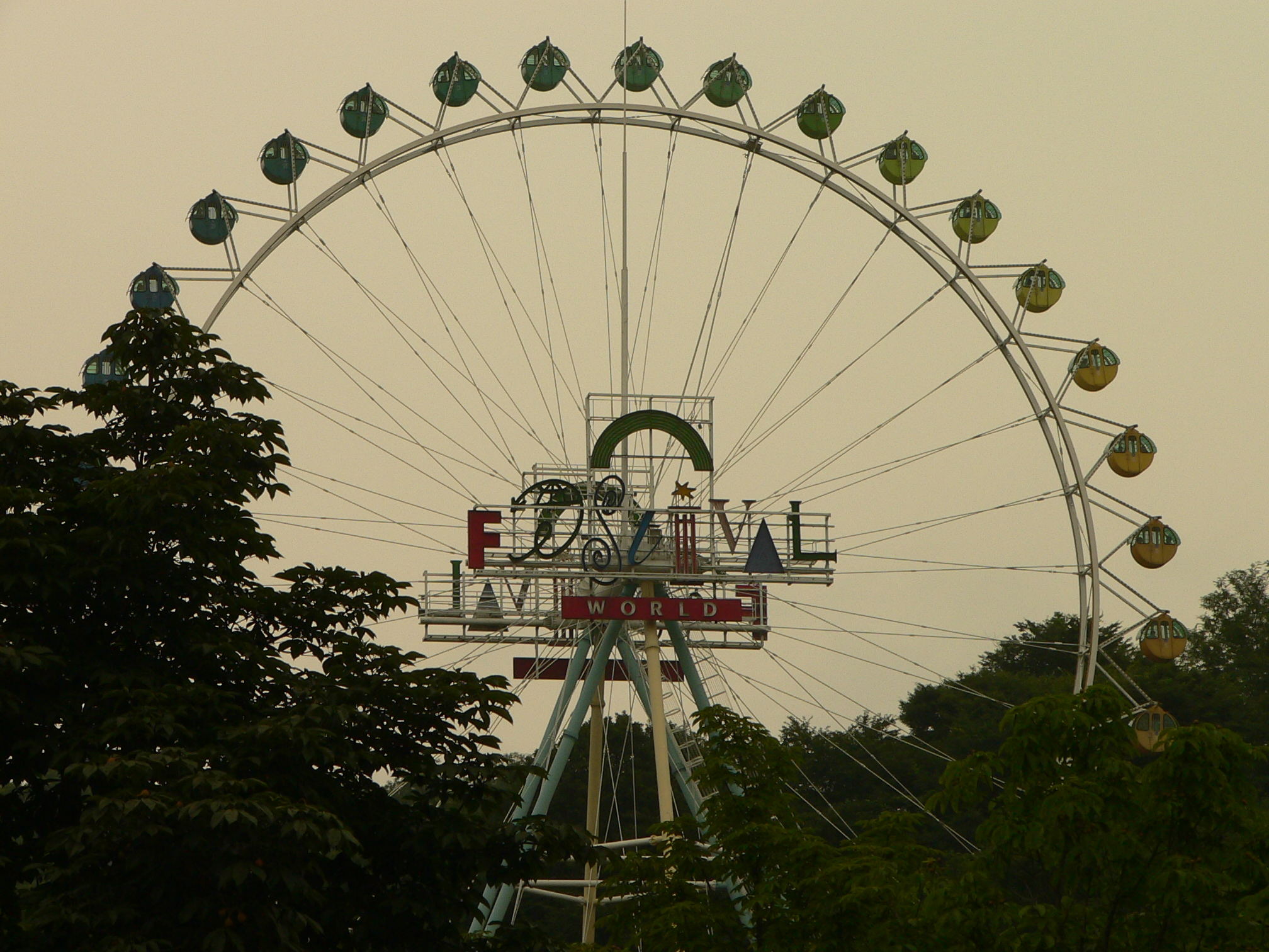 Everland, the biggest theme park of South Korea located in Yongin, Gyeonggi Province.